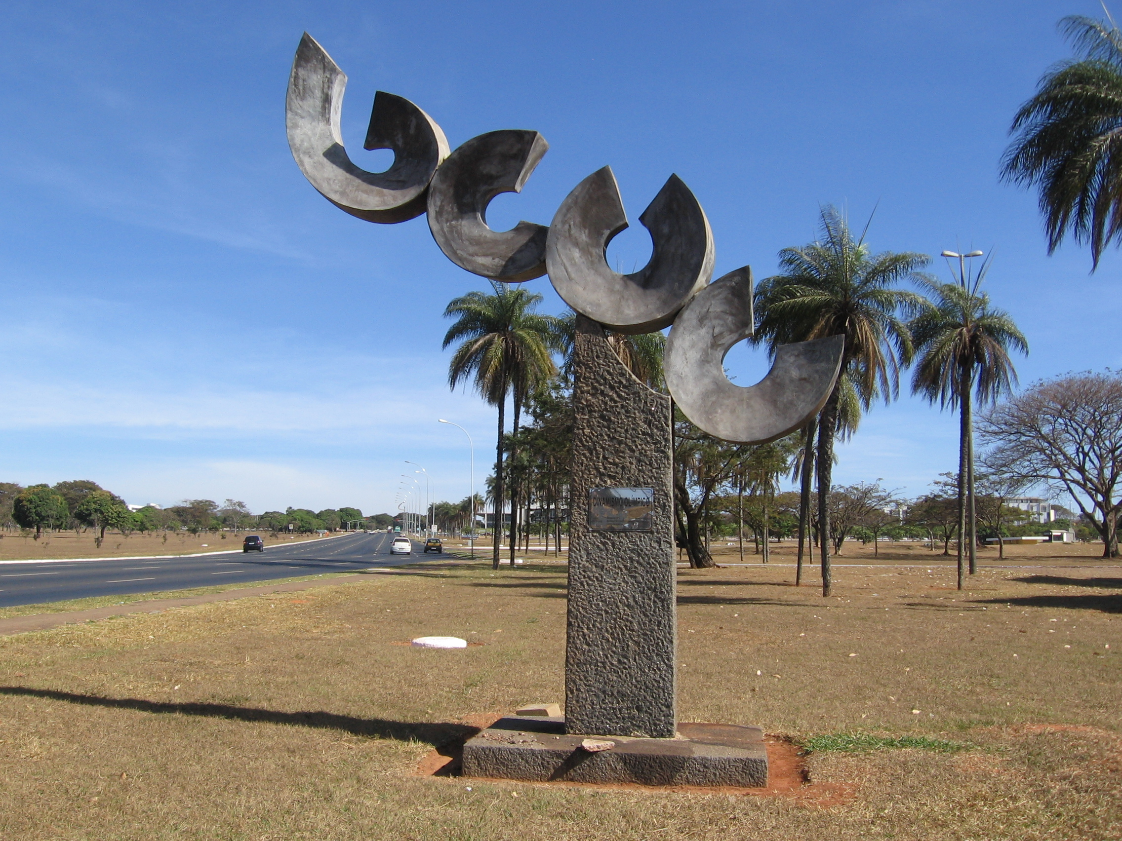 Informational plate of the "Dinamismo Olímpico" bronze sculpture in Brasília, Brazil